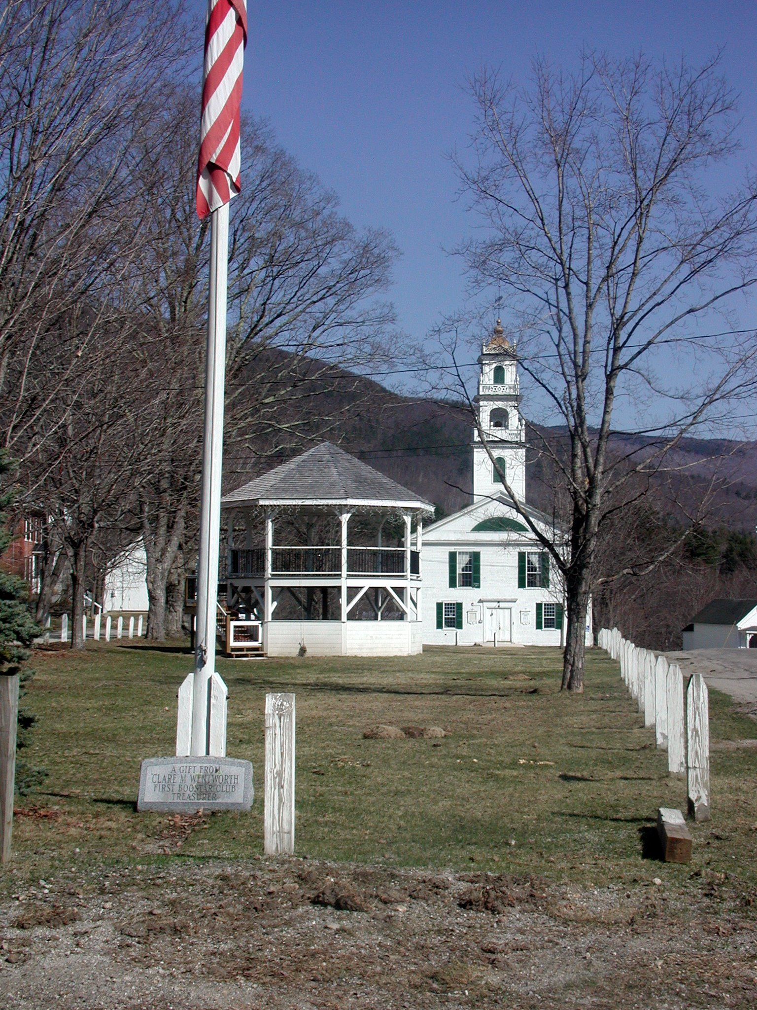 Wentworth New Hampshire NH Town Common Gazebo Church